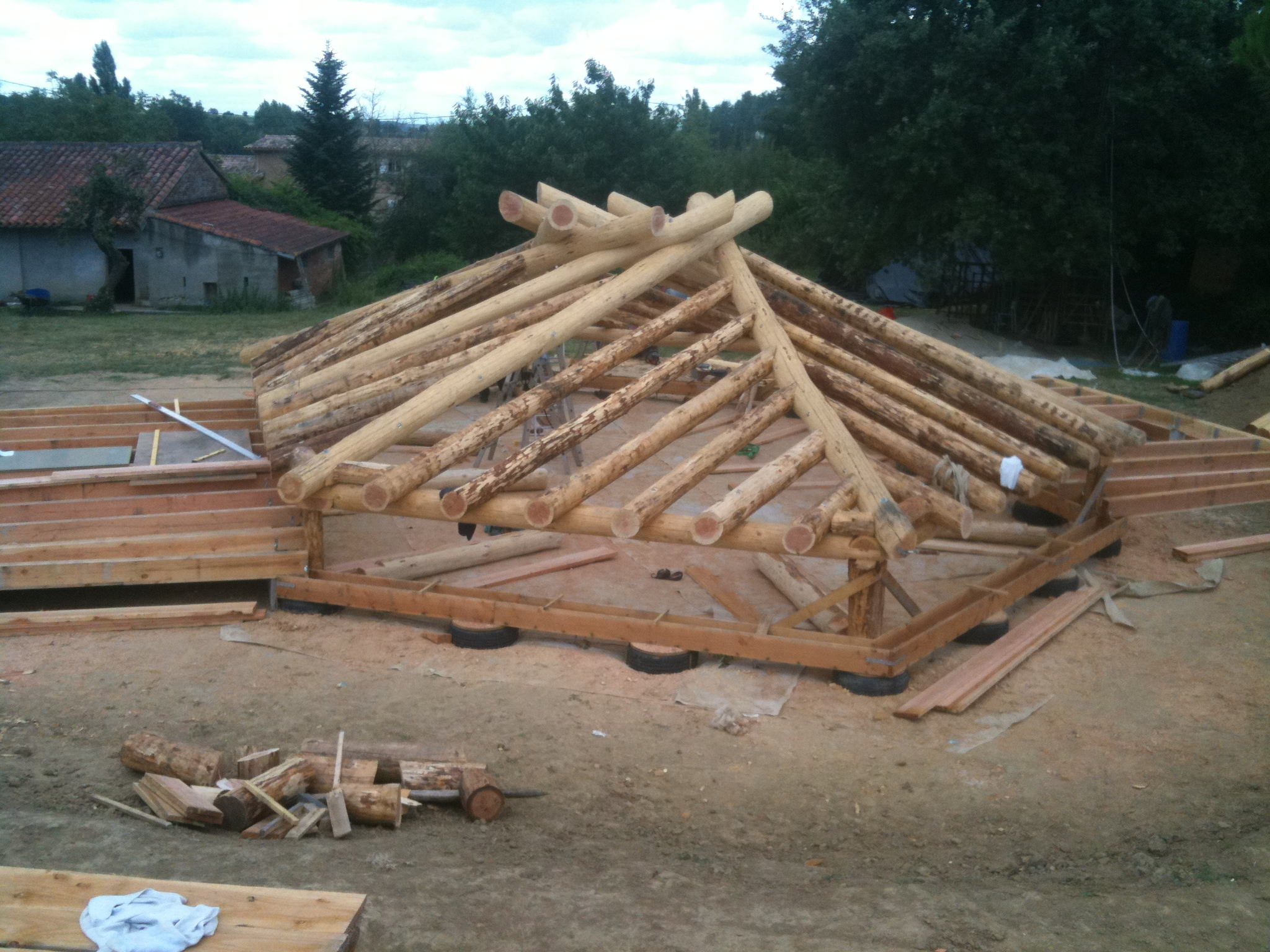 reciprocal roof made from douglas logs on tire foundations